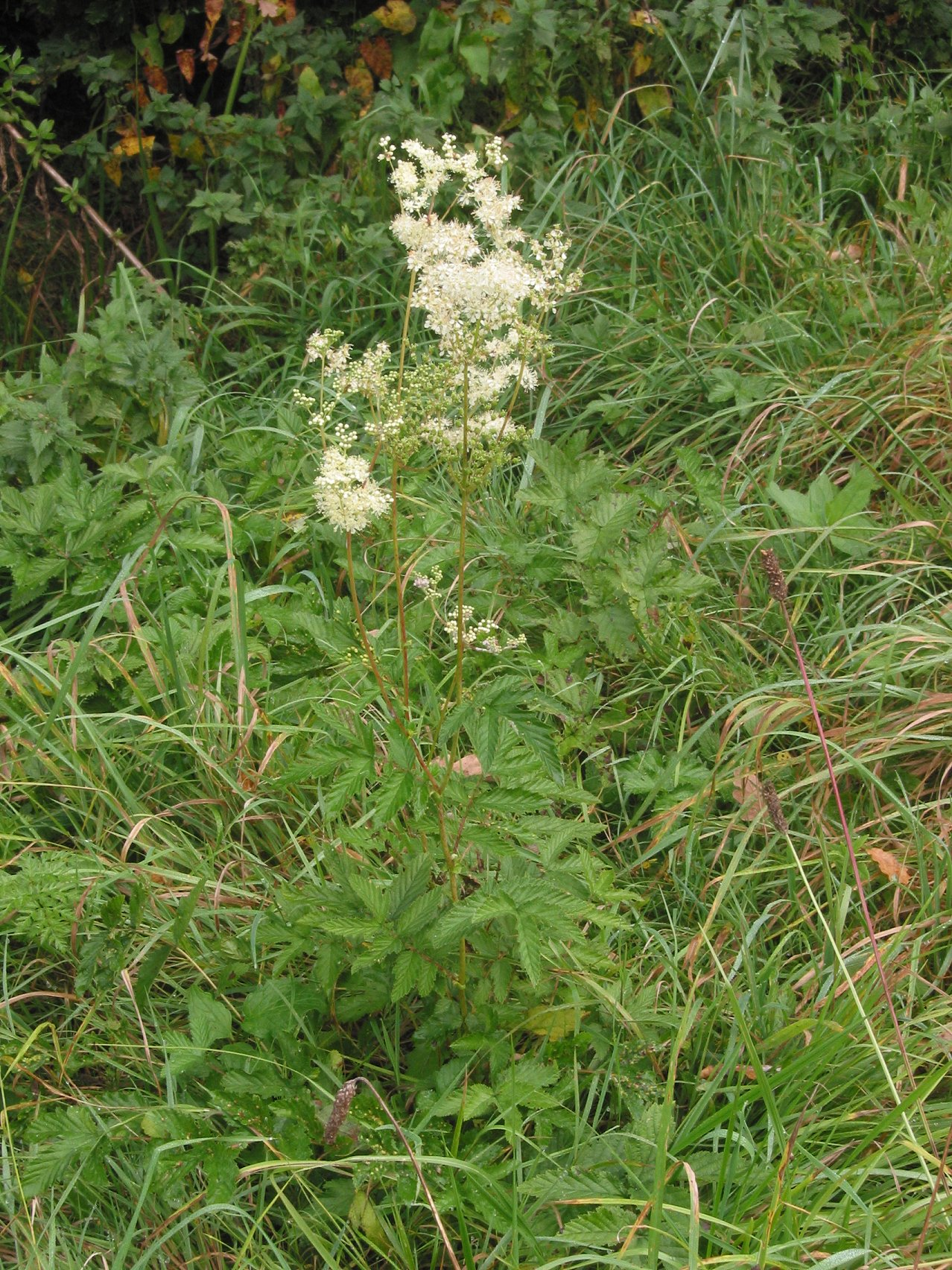 Filipendula ulmaria